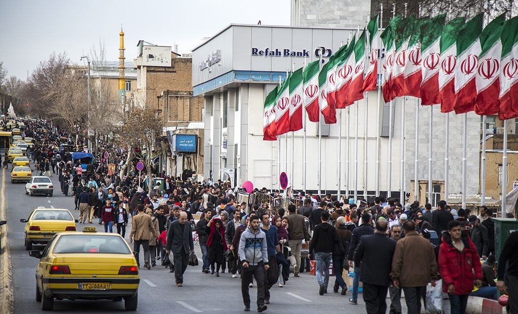 Nowruz 2018 in bazaars and shops of Sanandaj (13961215001320636559707416070387 21327) full gallery